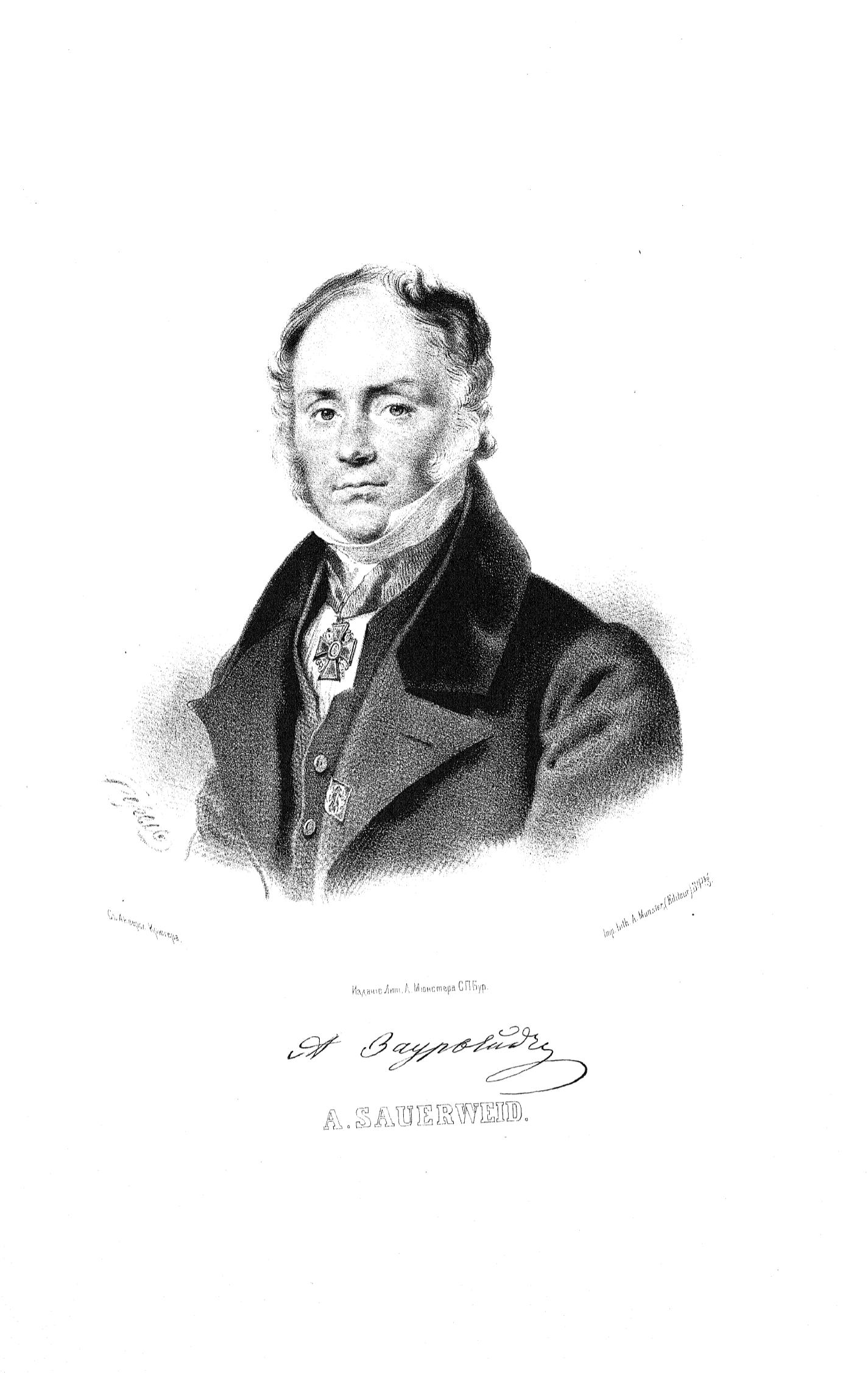 Aleksandr Ivanovich Zauerveyd